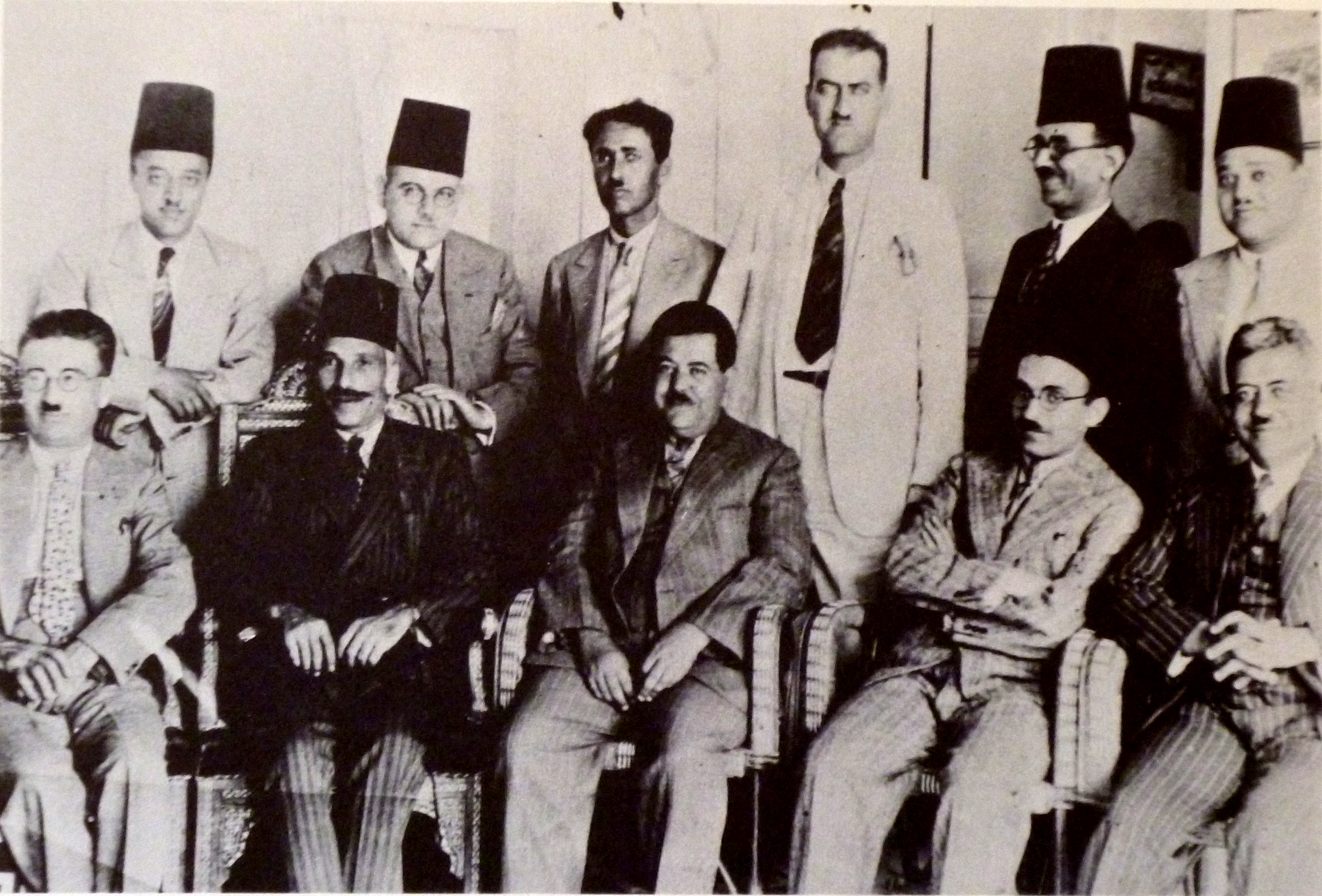 The Istiqlal (Independence) Pan-Arab Party founded in 1932. Darwazah seated centre, al-Haj Ibrahim seated second left, Ahmad Shuqeiri standing first left